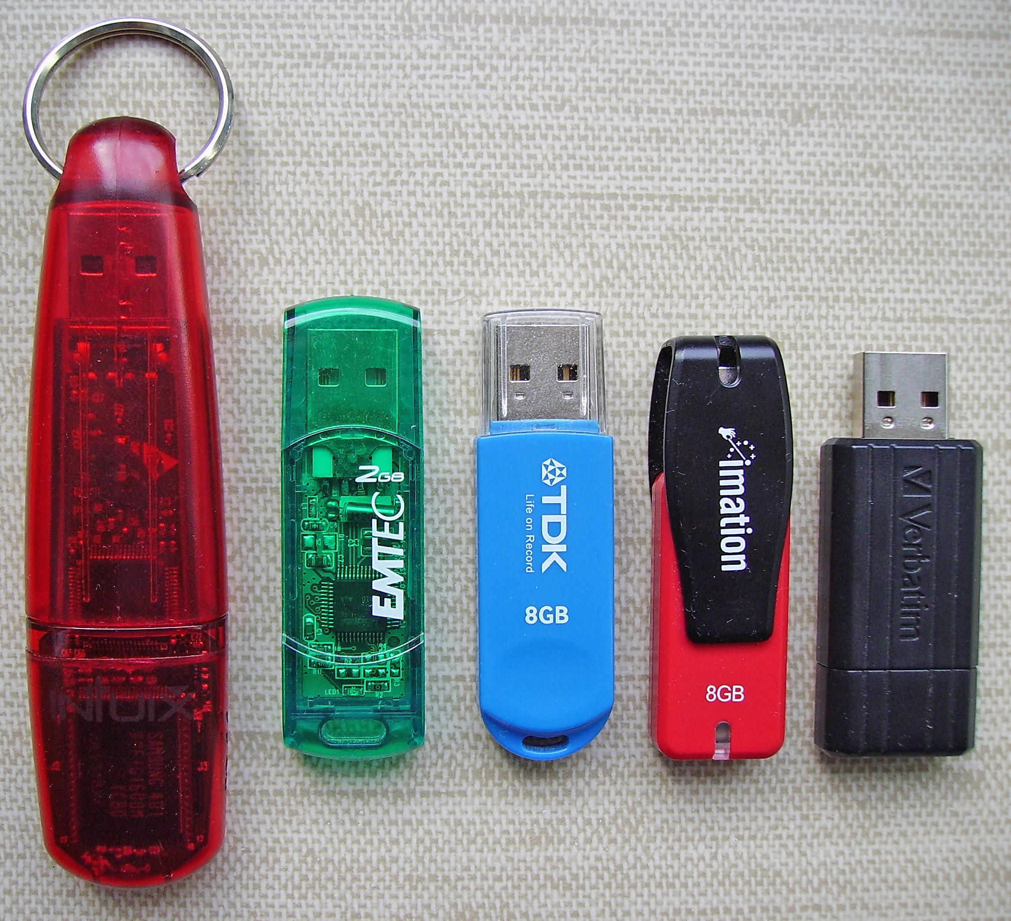 Different types of USB 2.0 flash drives; from left to right: from oldest to most recent. Intuix 256 MB, Emtec 2 GB, TDK Trans-It 8 GB, Imation 8 GB, Verbatim 8 GB.